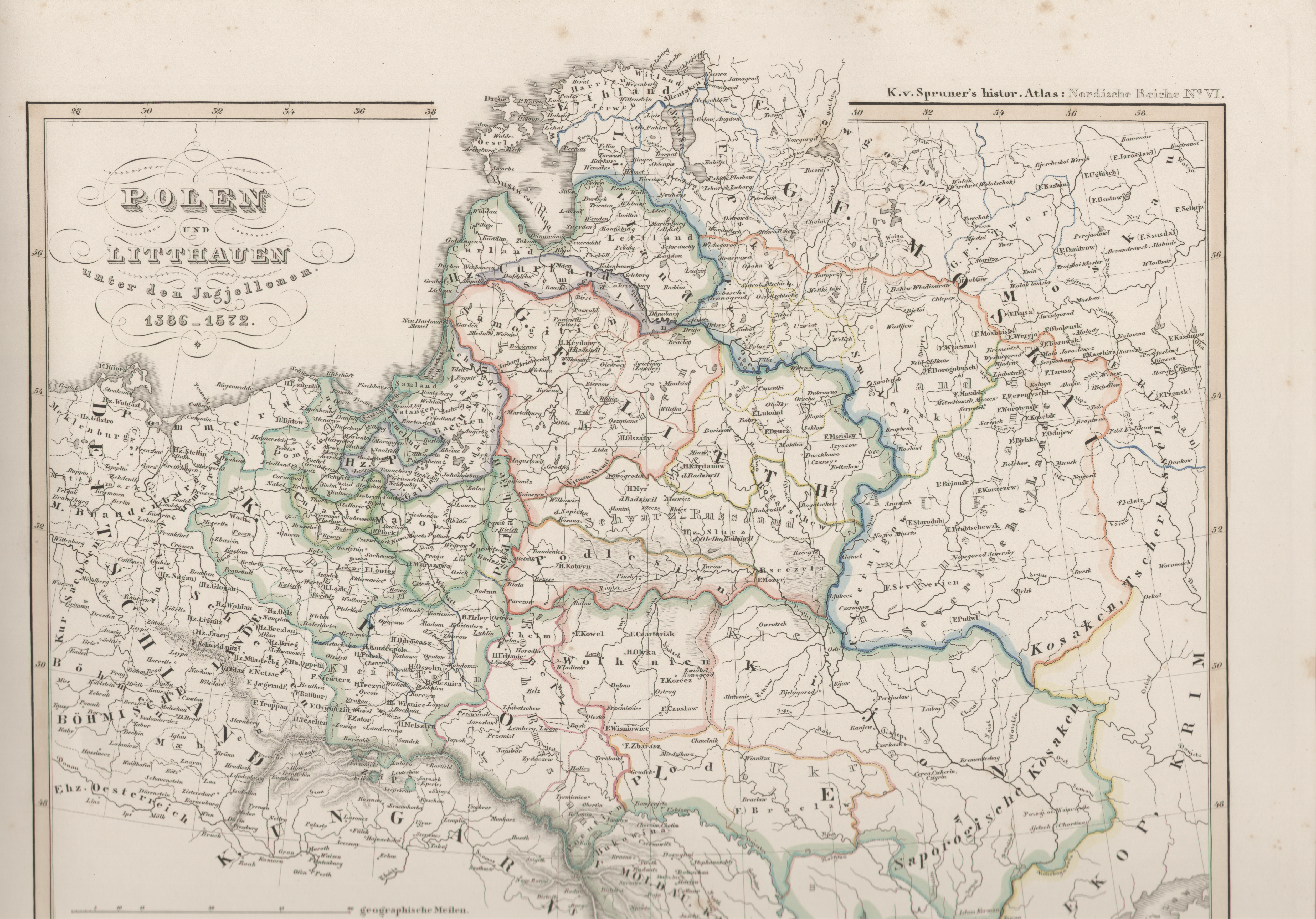 Poland und Lithuania under the Jagiellons 1386 - 1572